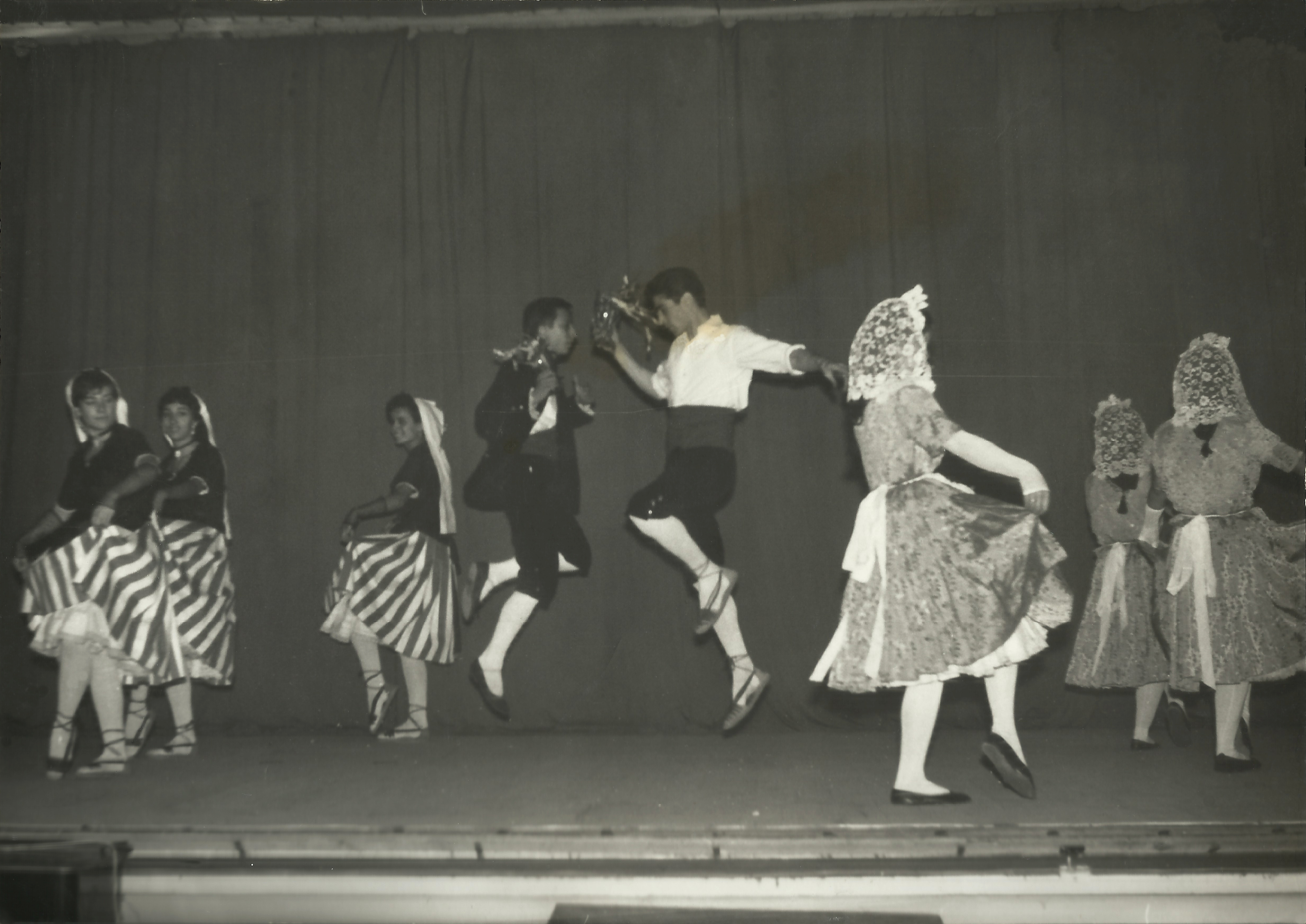 Performance of the Esbart Joventut Nostra on June 7, 1934.